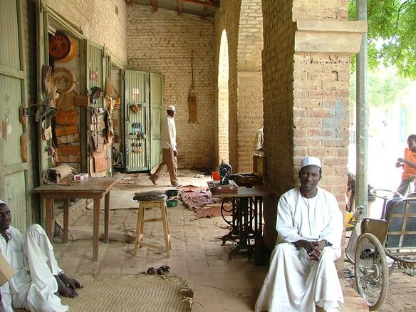 Abeche leather shop, Chad